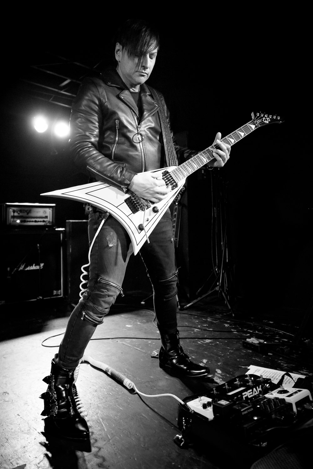 Amir Derakh performing with Rough Cutt in San Diego, CA